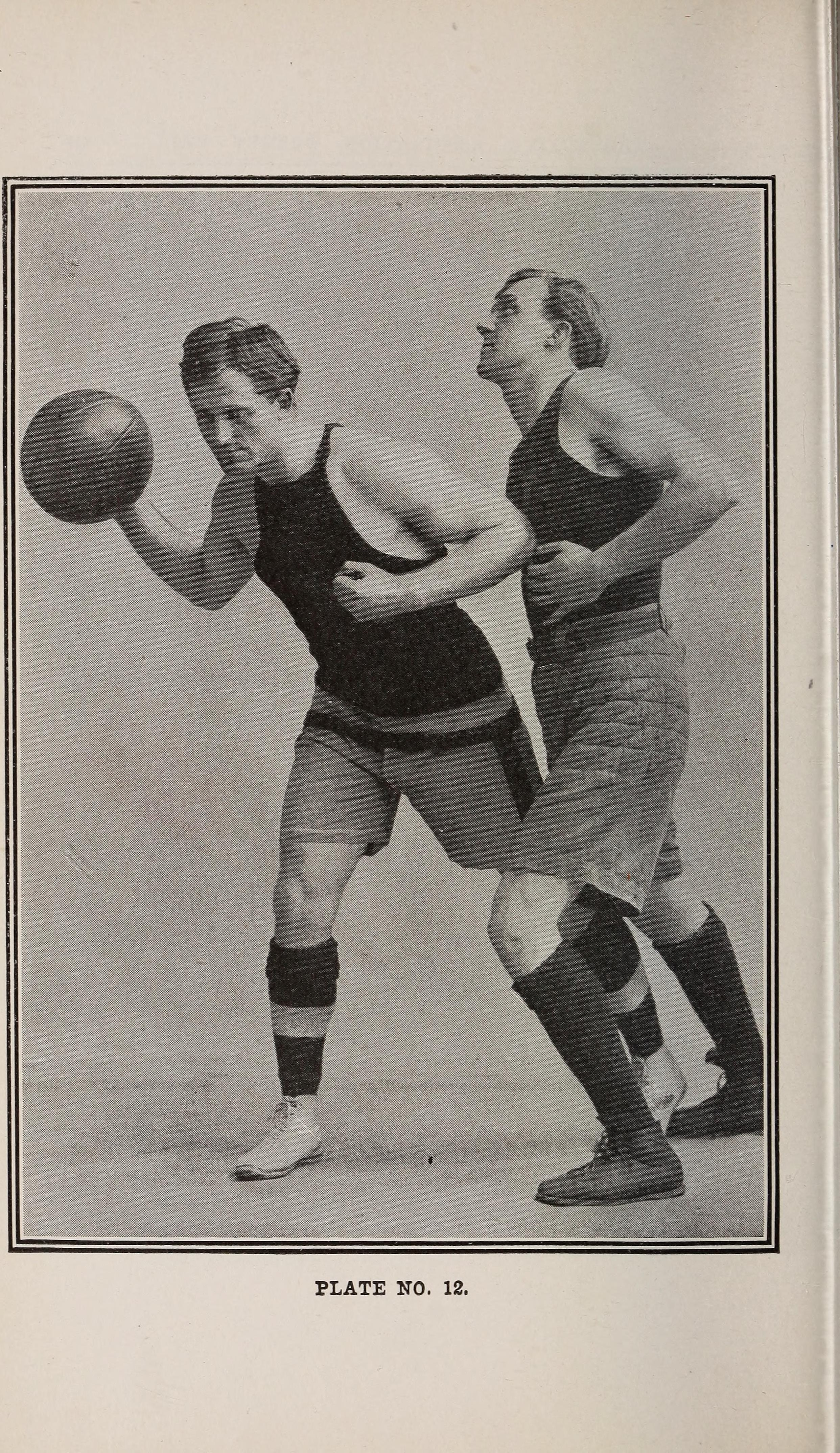 Title: Official basket ball guide and Protective association rules for 1908 '09 Year: 1908 (1900s) Authors: Smith, Thomas Henry, 1870?- (from old catalog) Protective basket-ball association of the eastern states. (from old catalog) Subjects: Basketball Publisher: New York city, R. K. Fox Text Appearing Before Image: PROTECTIVE ASSOCIATION BASKET BALL. 117 Plate No. 11. Illustrates a man pursuing the ball out ofbounds. His opponent, who is a little bit late,tries to prevent his securing the ball by hippinghim. It is a superfluous and unnecessary piece ofroughness, for possession of the ball depends notupon who touches it first when out of bounds,but upon who crosses the line first nearest theball. Officials will do well to discourage thissort of thing by the instant use of the whistle. Text Appearing After Image: PROTECTIVE ASSOCIATION BASKET BALL. 119 Plate No. 12. Illustrates the use of the elbow to temporarilydisable an opponent. The man in front is drib-bling; the man in the rear, while attempting tocover as best he can, comes within range and isthe recipient of an elbow in the solar-plexus.Needless to say, he is temporarily disabled. Theelbow figures in many other plays, and requiresa sharp-eyed official to detect it. It is dirtyplay of the worst description.